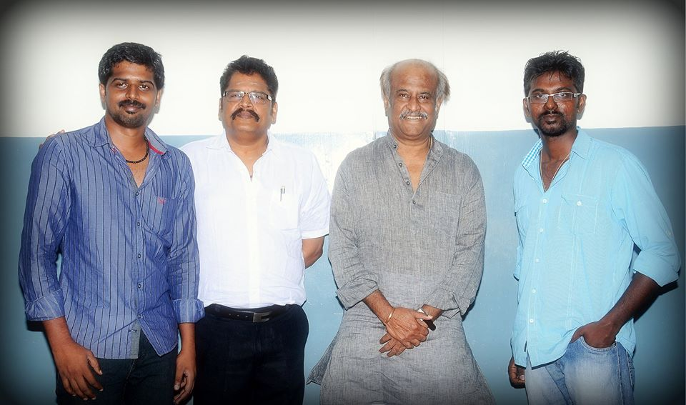 Rajinikanth is seen with K. S. Ravikumar and two of the Kochadaiiyaan directorial team members.